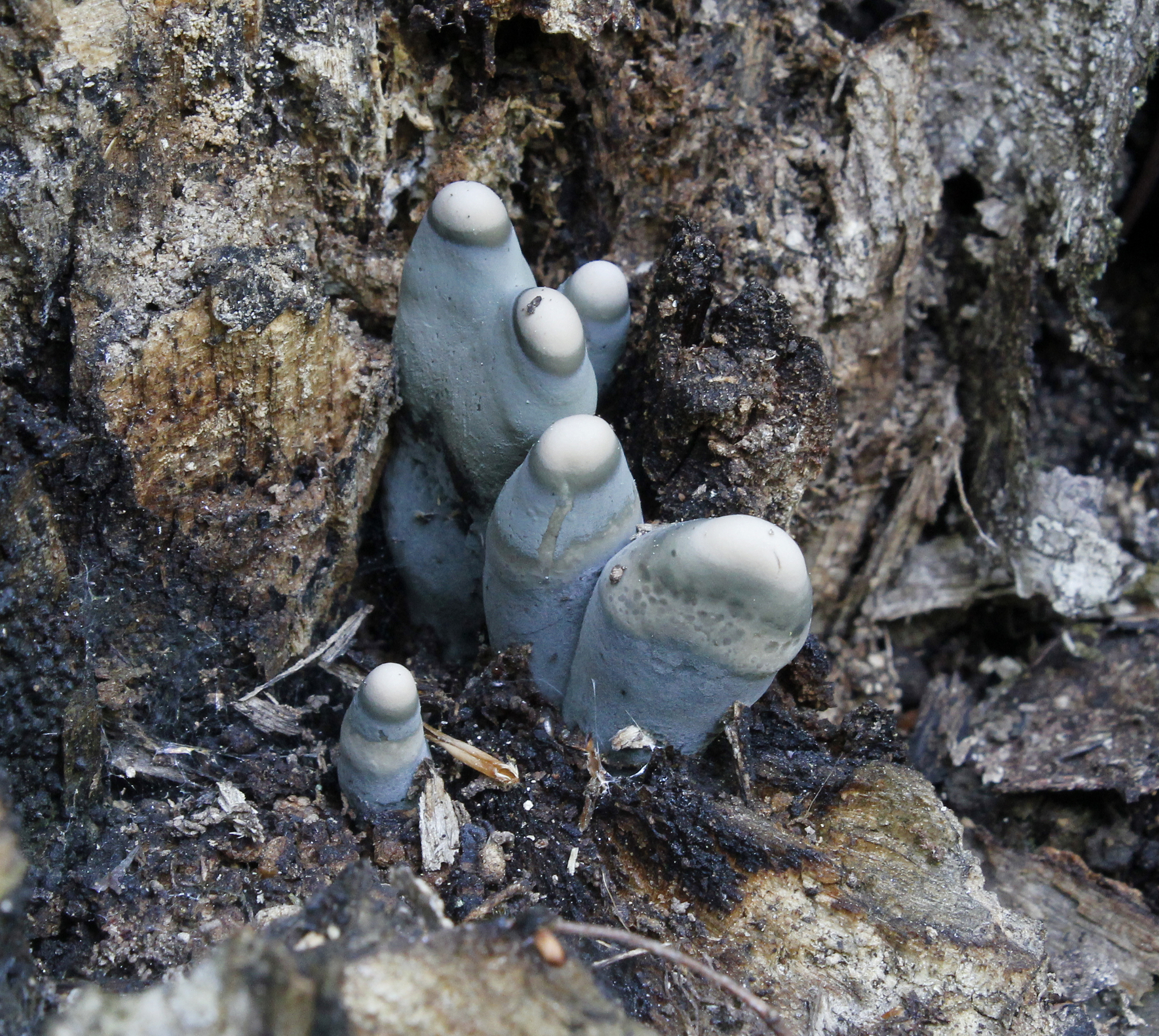 Xylaria polymorpha (Pers.) Grev. Image location: Great Smoky Mountains, North Carolina, USA Recognized by sight For more information about this, see the observation page at Mushroom Observer.